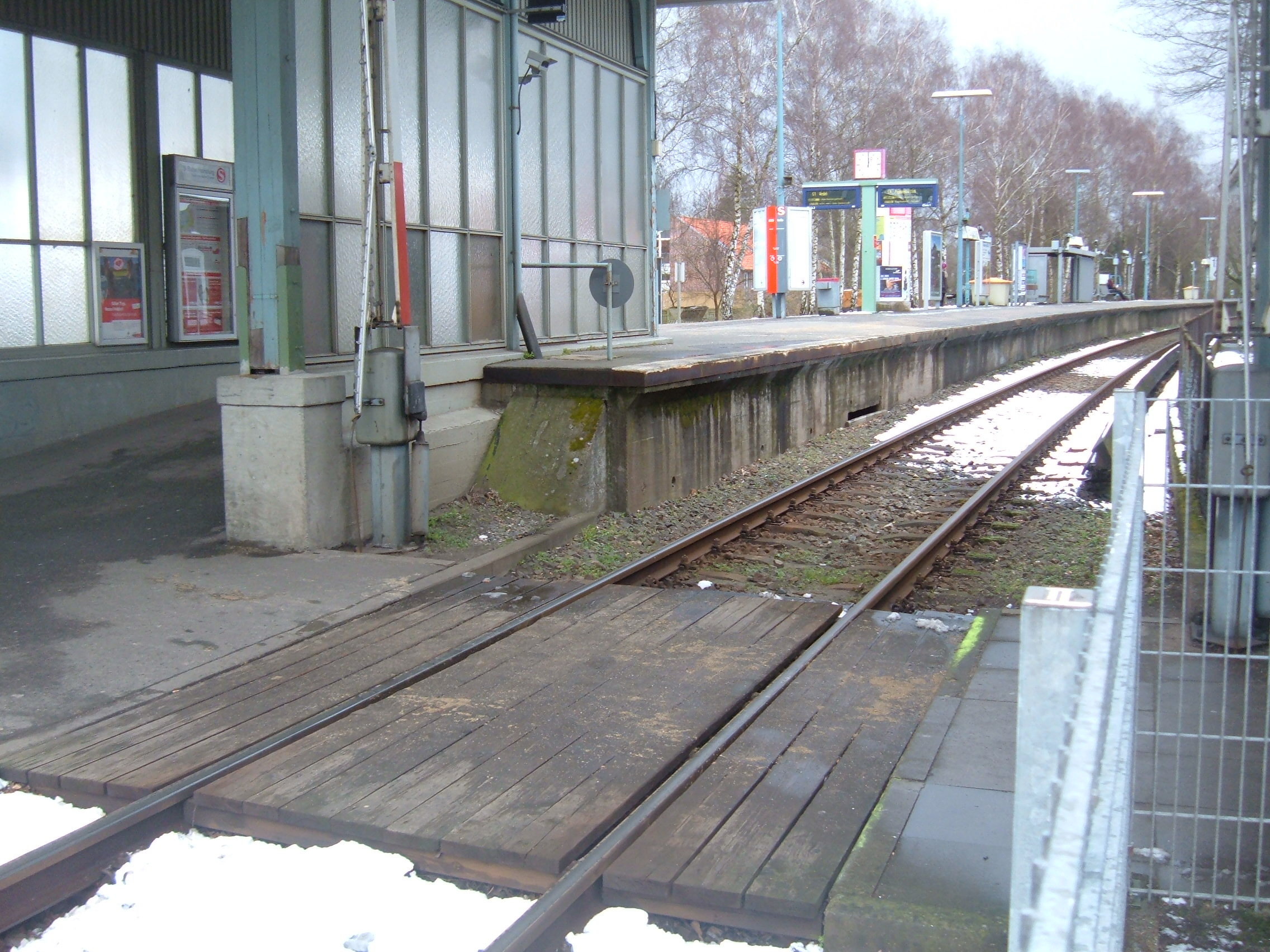 Sülldorf station of Hamburg S-Bahn